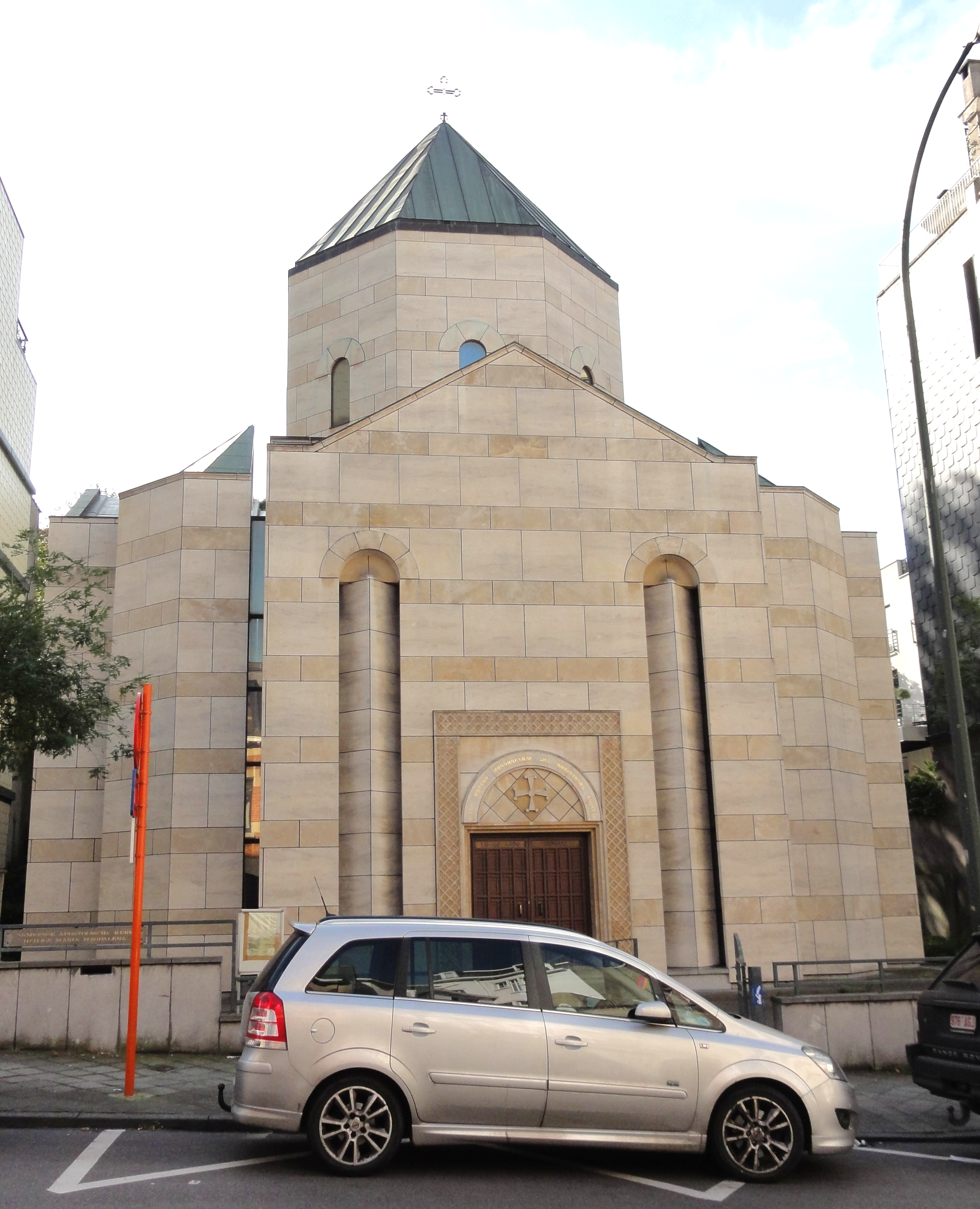 Saint Mary Magdalene Church (Armenian Apostolic Church), Brussels